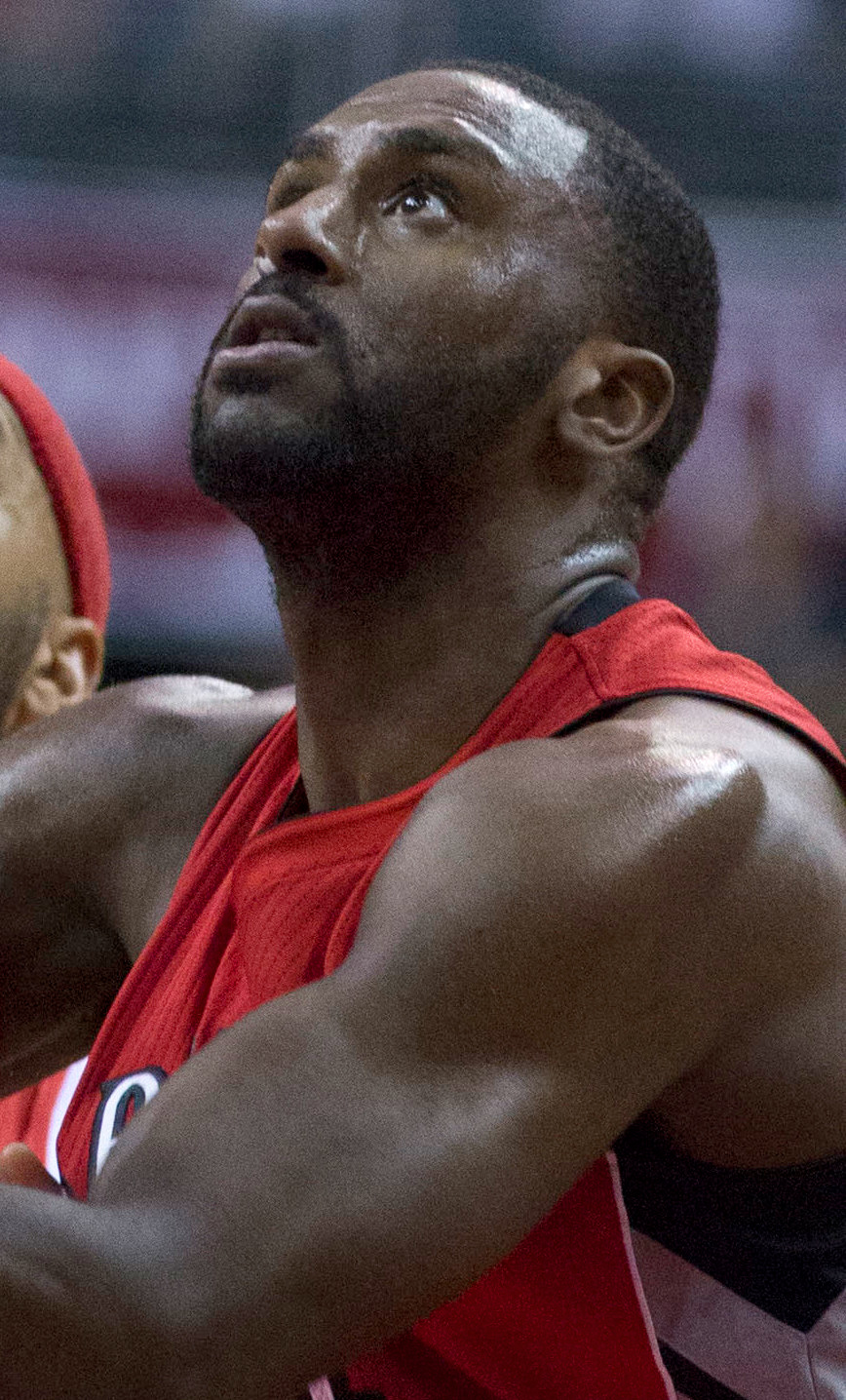 Toronto at Washington 04/26/15